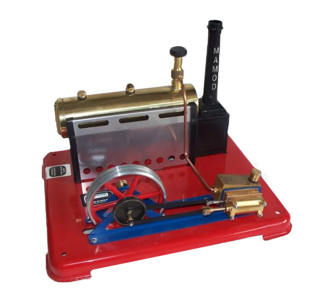 A Mamod SP6 engine. Permission granted by to upload this image.